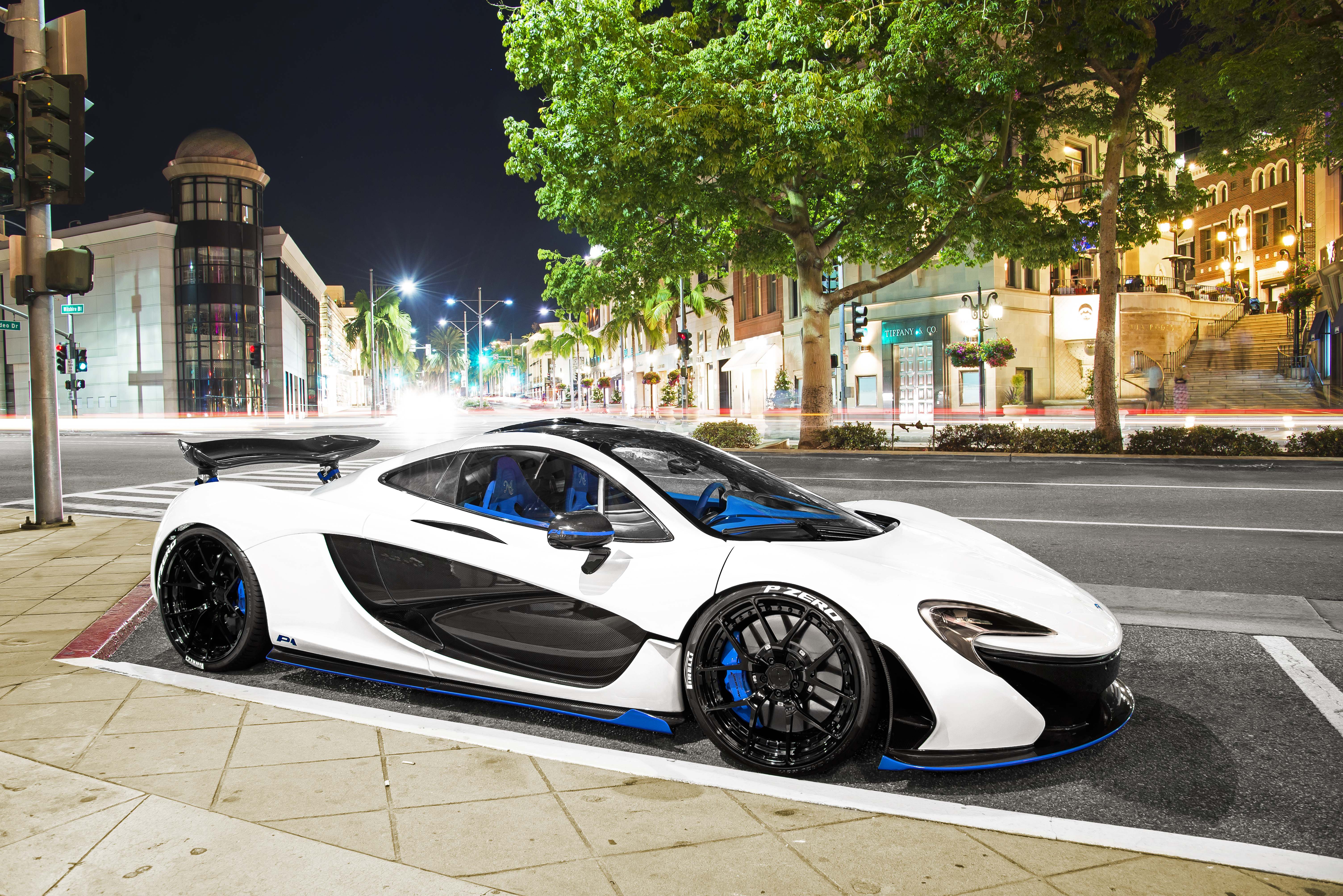 White/Blue MSO McLaren P1 on HRE Wheels in Beverly Hills.